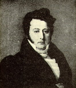 Francois Constantin, Clockmaker (1788-1854), Vacheron Constantin